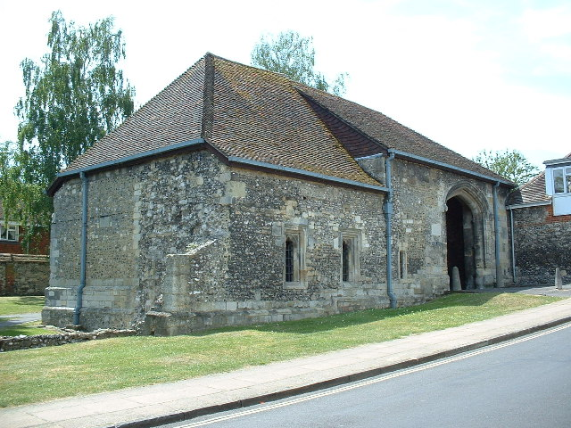 Hyde Abbey Gate, just North of Winchester.